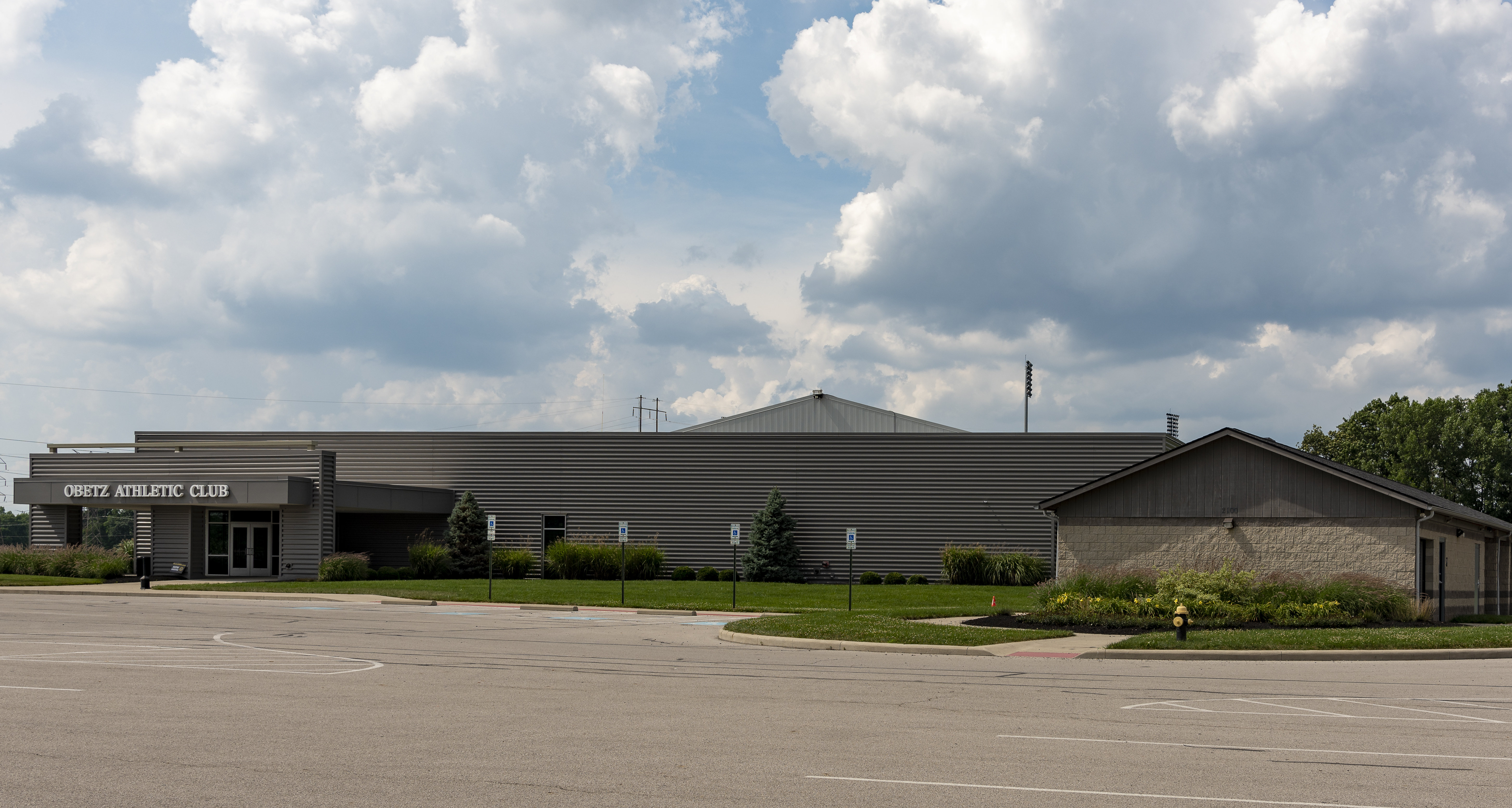 Exterior of the Obetz Athletic Club, a 16,000 square foot facility located in Memorial Park in Obetz, Ohio.